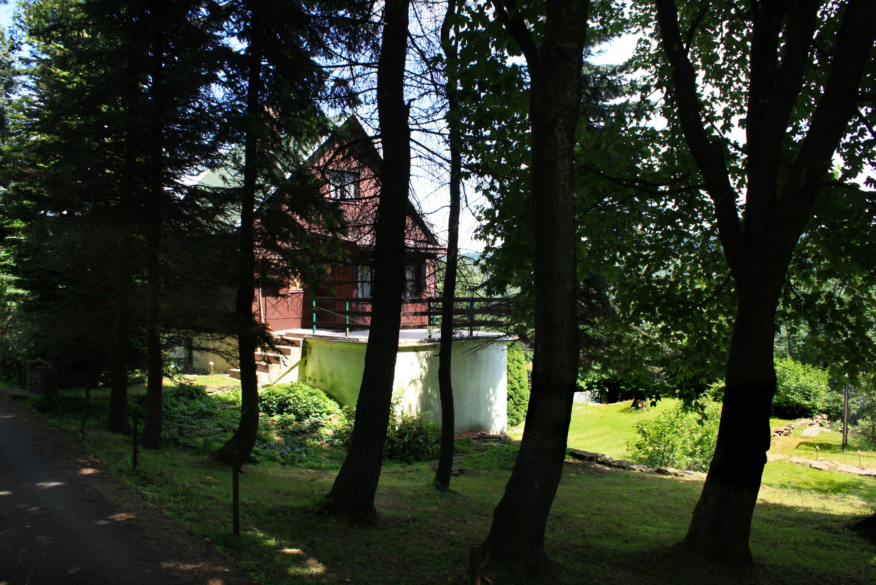 Svahová village, part of Boleboř, Czech Republic